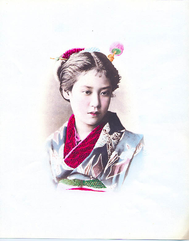 Officer's daughter, 1880s. Hand-coloured albumen silver print, variously attributed to Adolfo Farsari, Kusakabe Kimbei and Baron Raimund von Stillfried. Waseda University Library; Exhibitions; WEB; Farsari, No. 51. Accessed 14 February 2006.